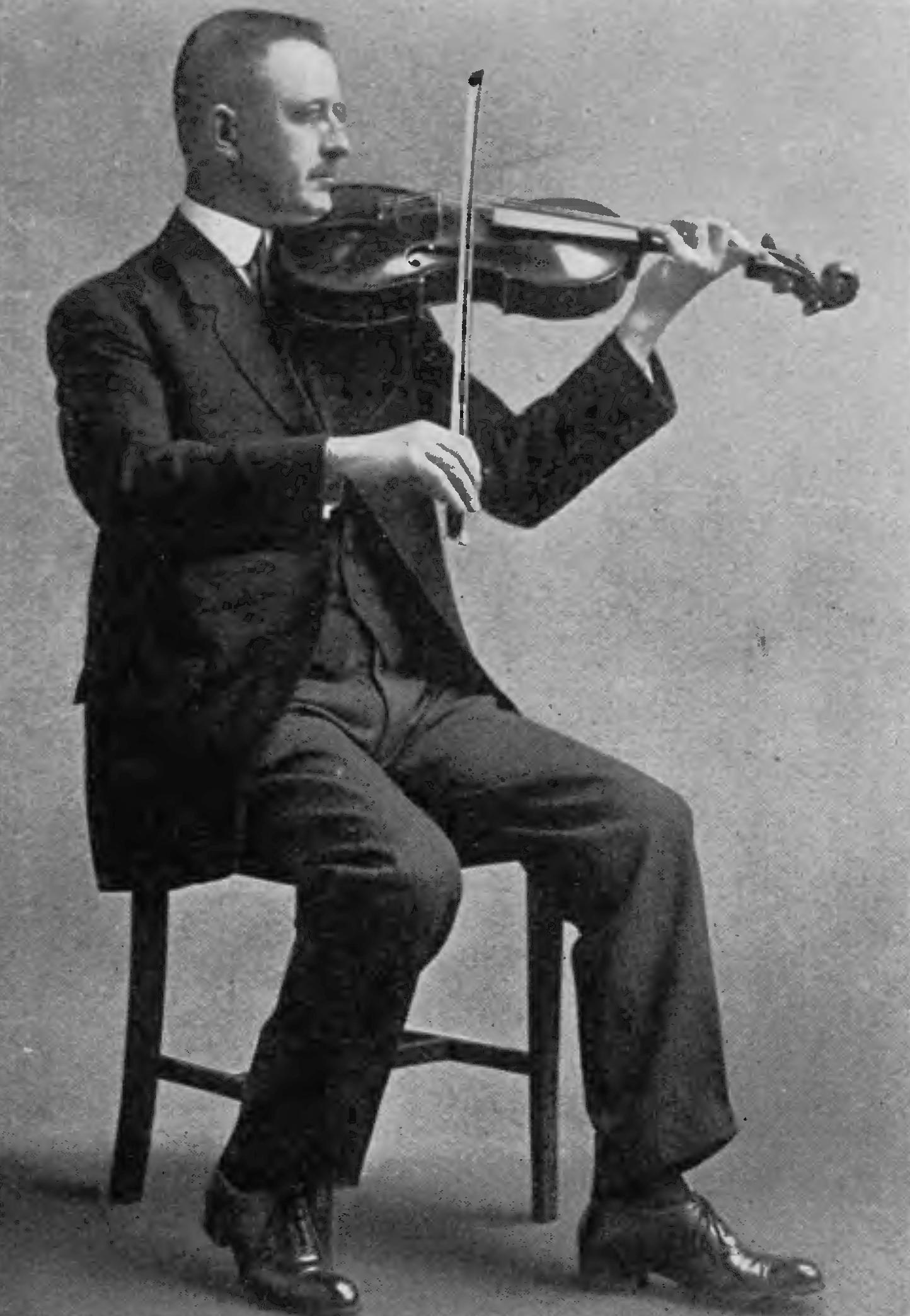 Joseph J. KovarikPrincipal ViolaN. Y Philharmonic Orchestra